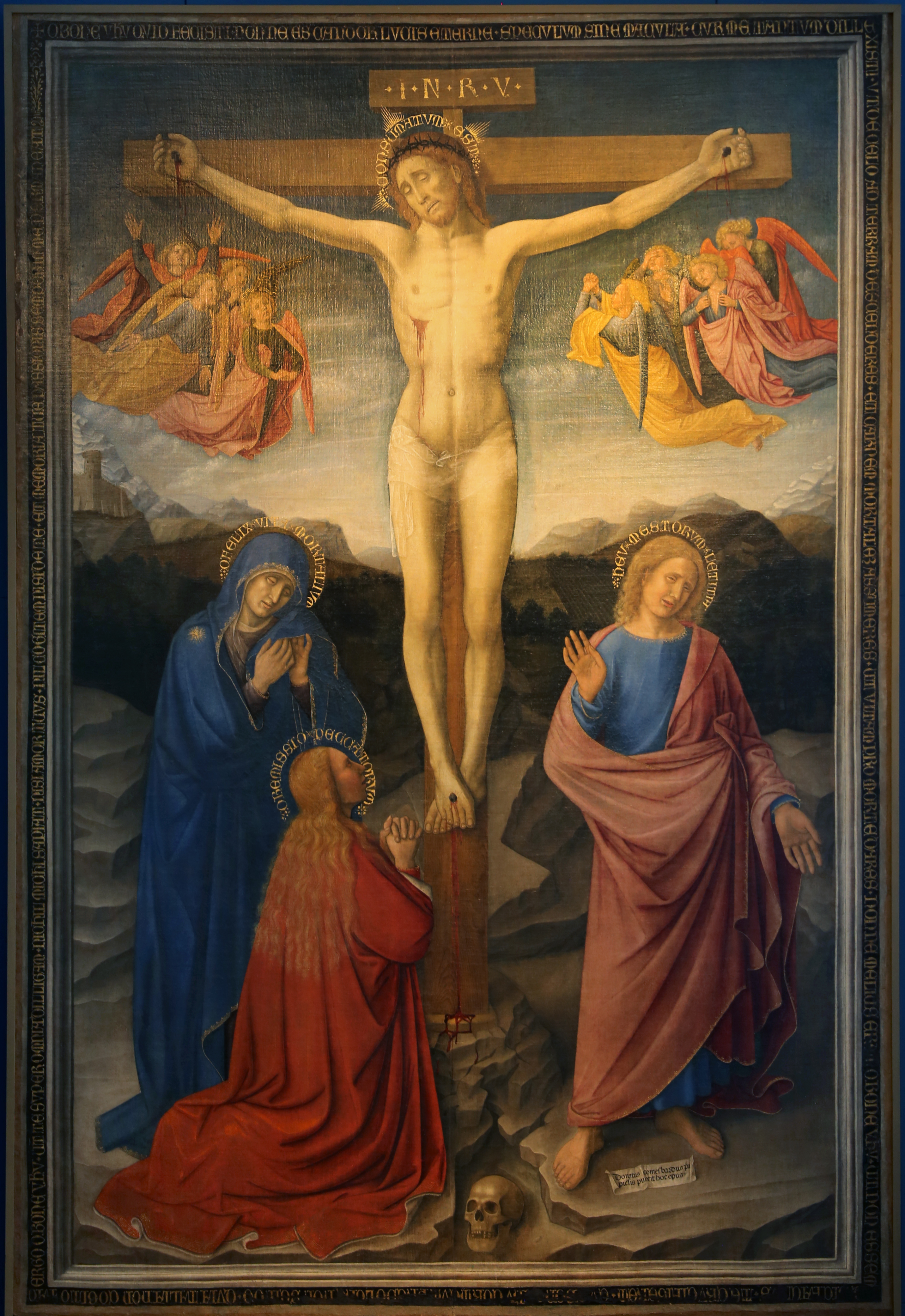 Savona Crucifixion by Donato de' Bardi